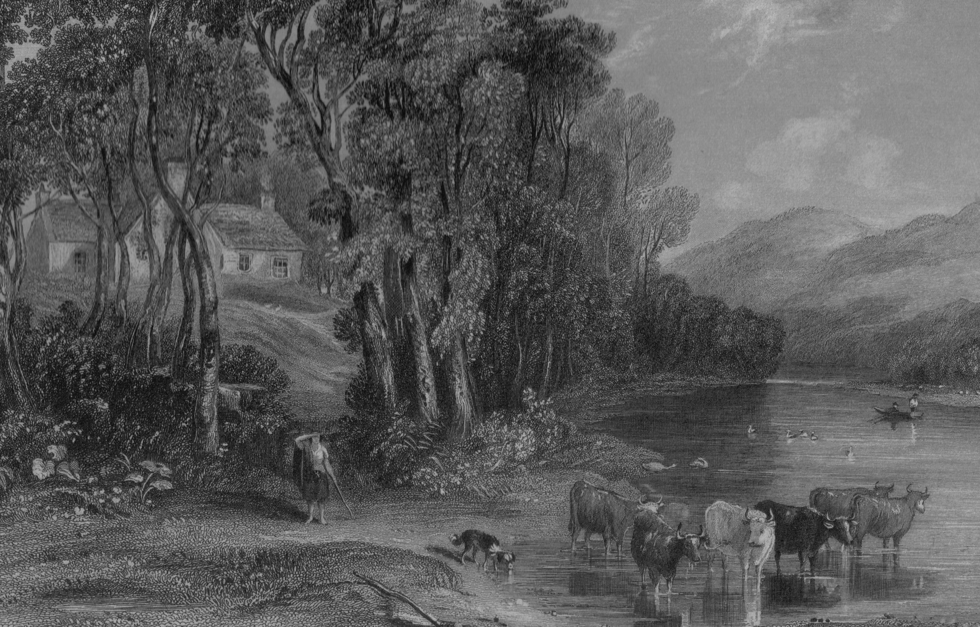 Ellisland Far by the River Nith, Dumfries, Scotland.